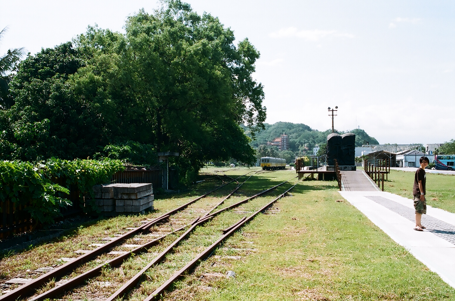 Old Taitung Station